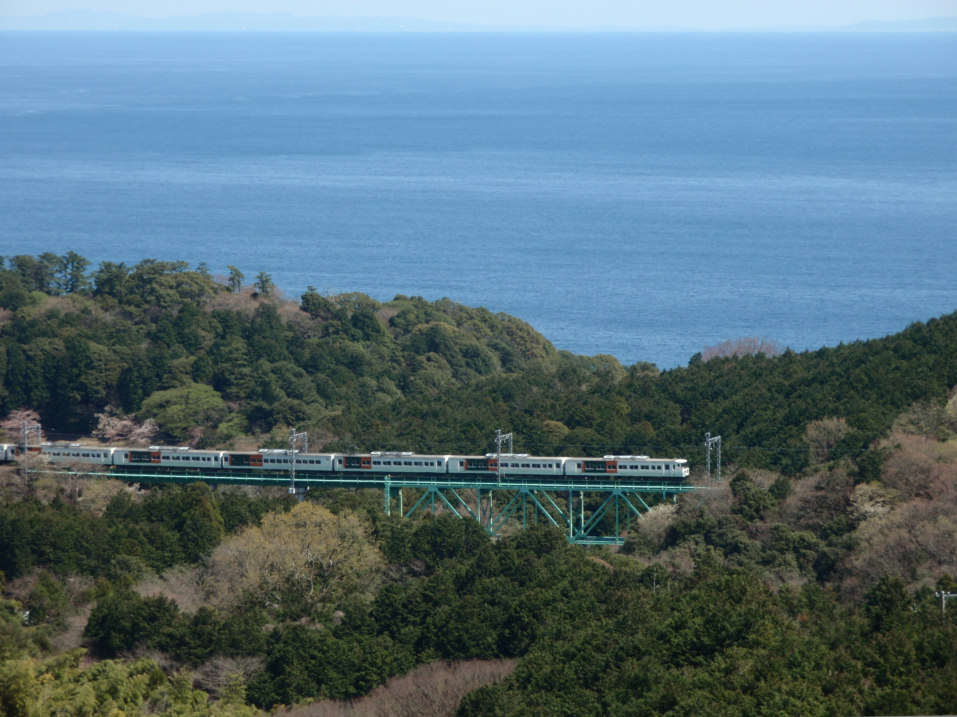 East Japan Railway type 185 "Odoriko" between Kawana Sta. and Futo Sta.